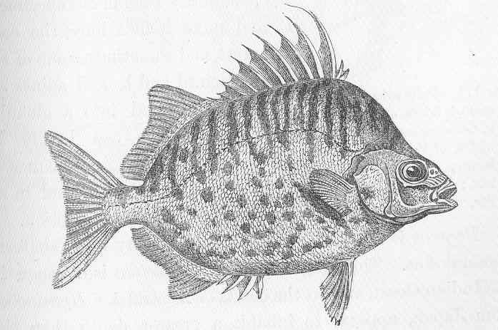 Scatophagus multifasciatus Subject: Scatophagidae (Fish) Tag: Fish